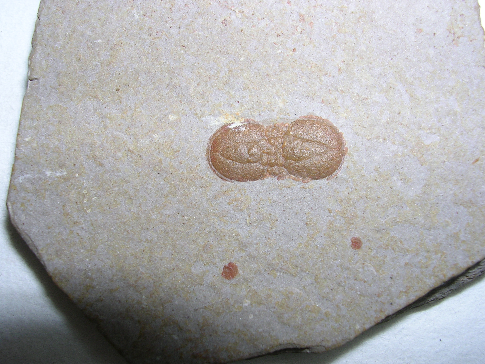 Ptychagnostus cuyanus fossil (Cambrian) founded in Utah, in a laboratory of practices of the Faculty of Sciences of the University of Corunna.